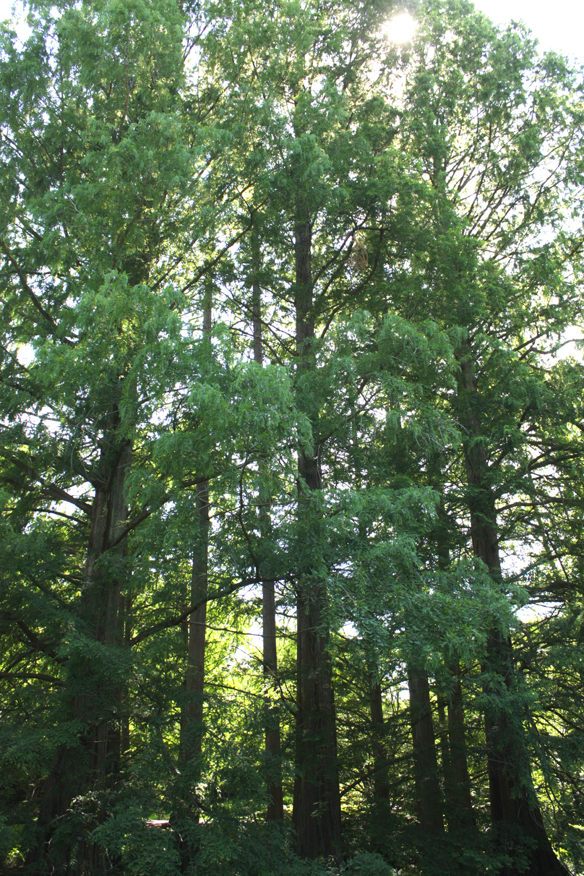 Metasequoia glyptostroboides, the dawn redwood, Morris Arboretum, Chestnut Hill, Philadelphia